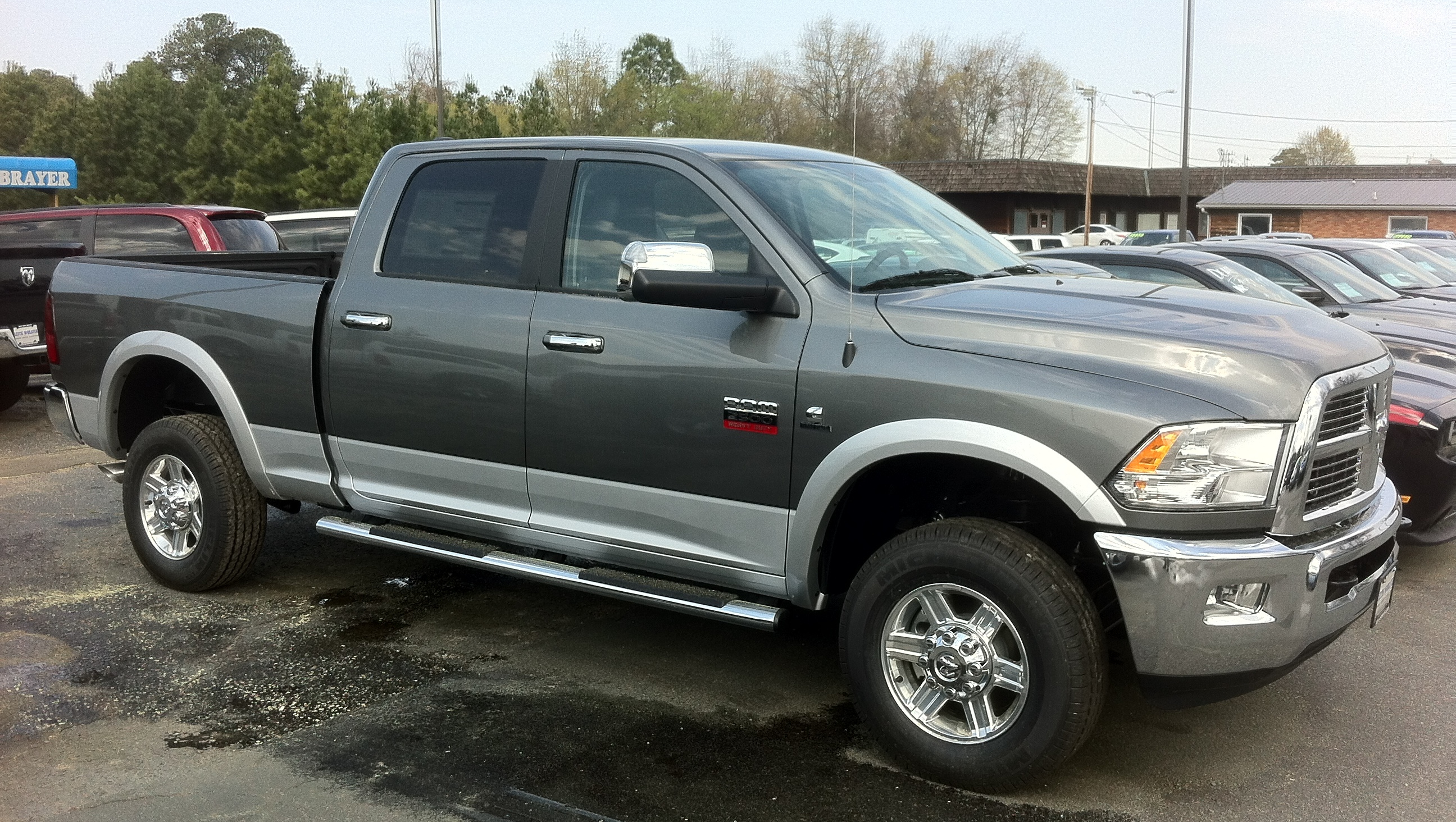 2012 Ram 2500 Heavy Duty crew cab with Cummins diesel - finished in dark silver. Picture taken in Aberdeen, North Carolina.